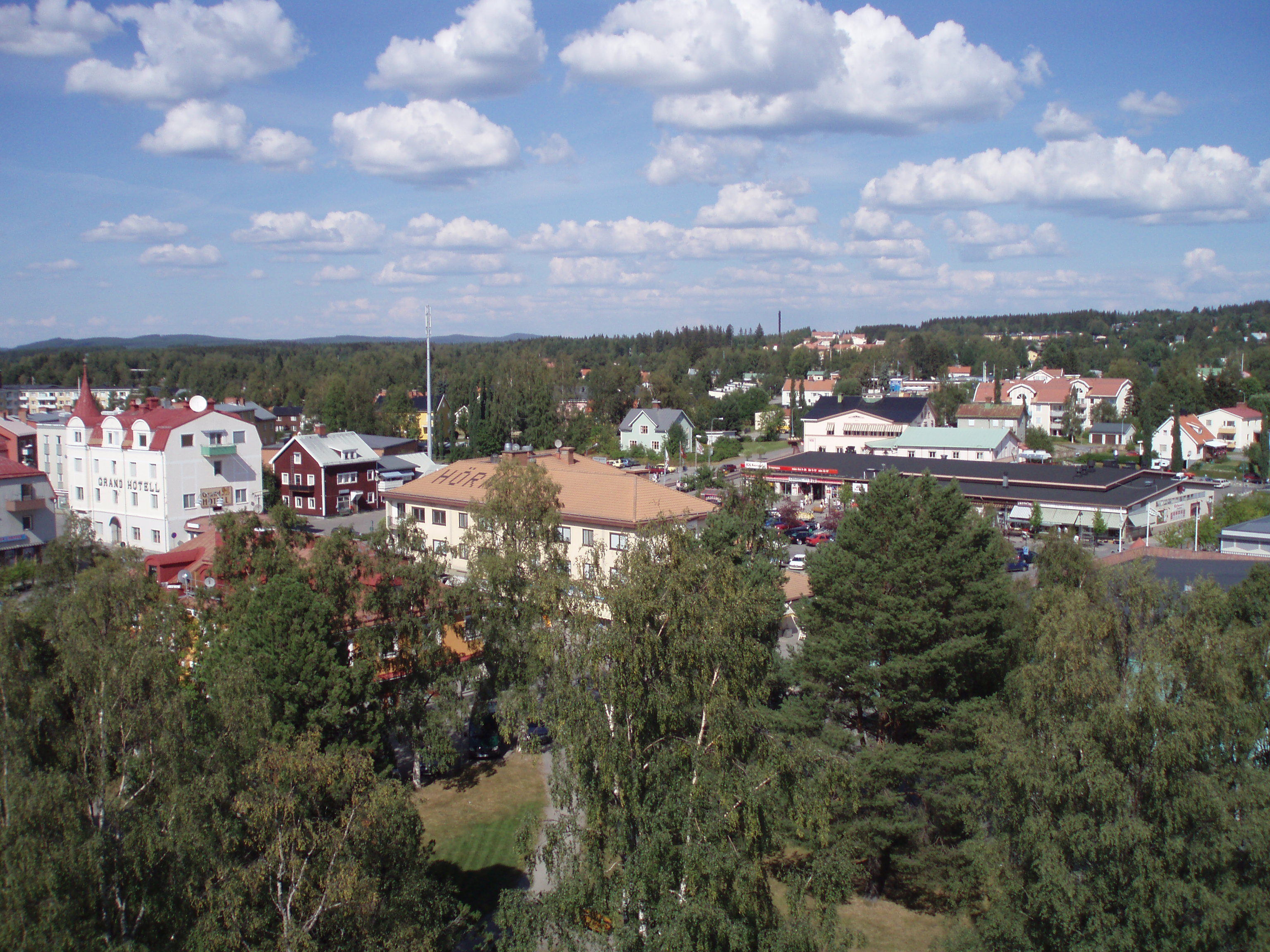 Strömsund, Sweden, seen from the church tower. Photo taken in aug. 2006 by me - User:Cucumber